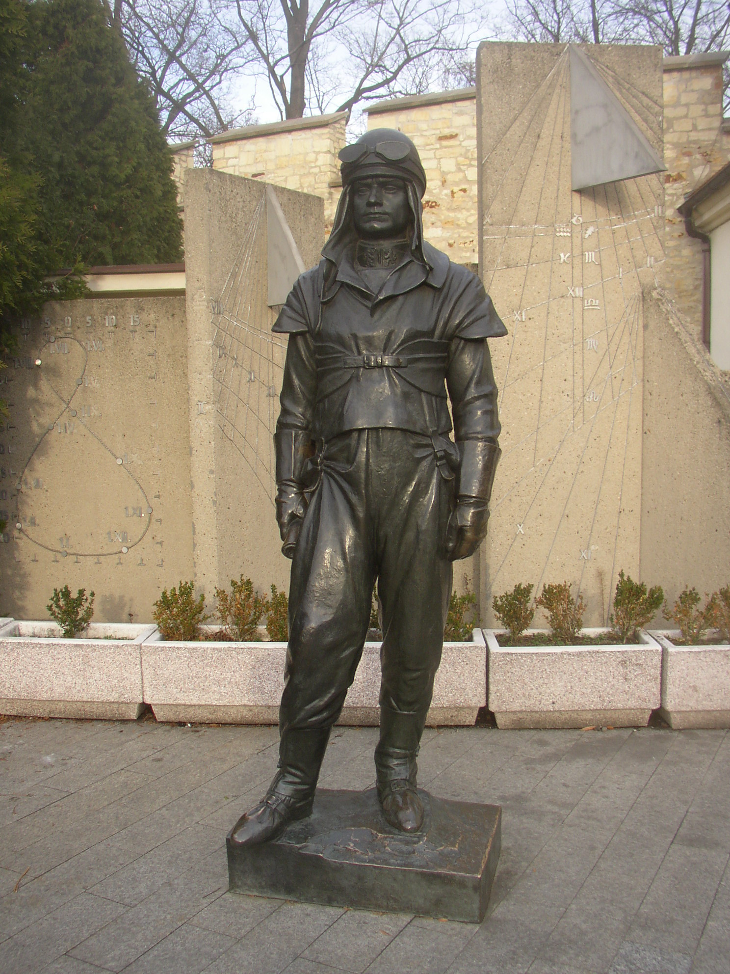 Statue of Milan Rastislav Štefánik in front of sundial besides Štefánik´s Observatory in Prague, Czech Republic. See also overall view img. 02.